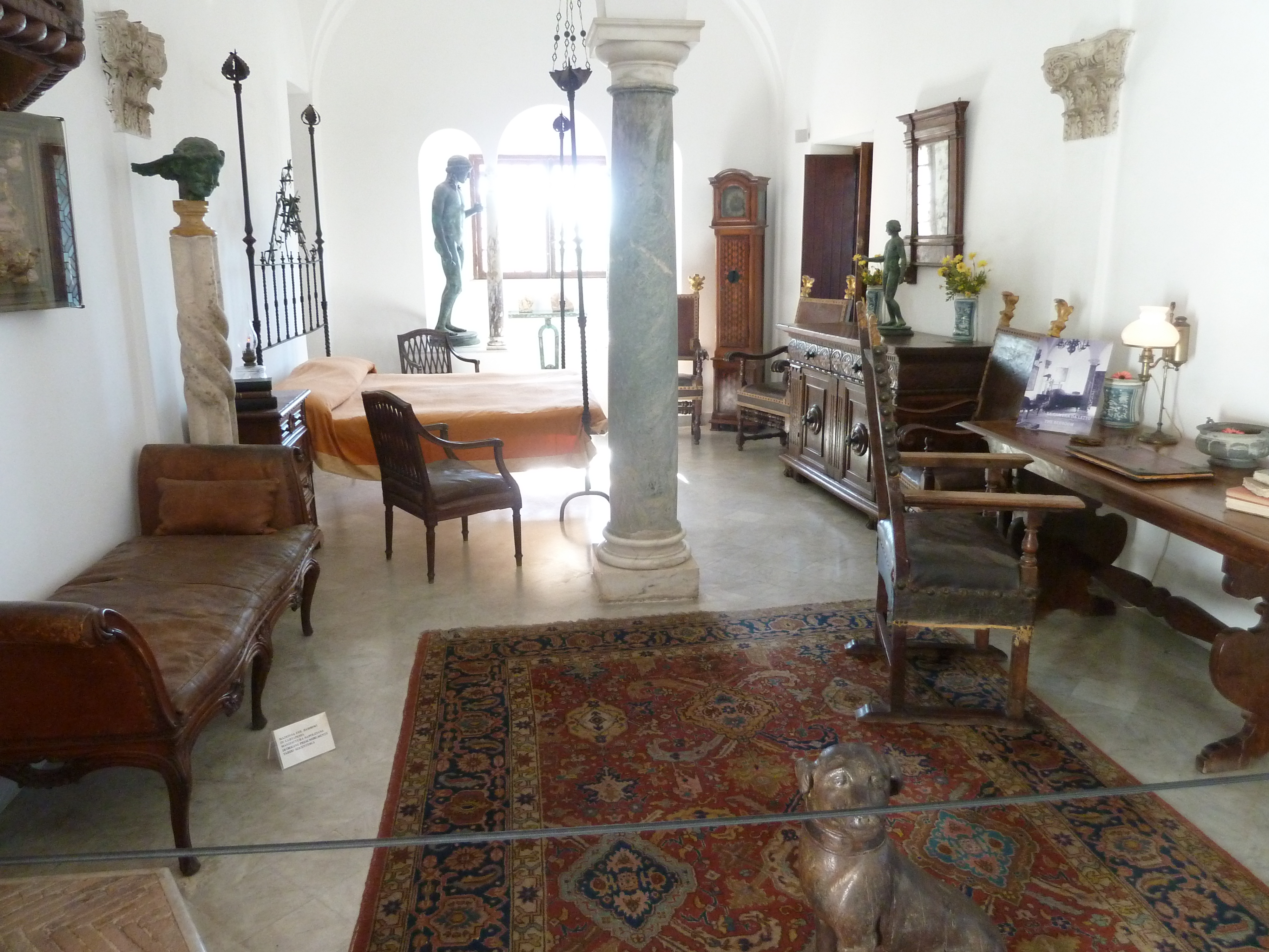 bedroom san michele